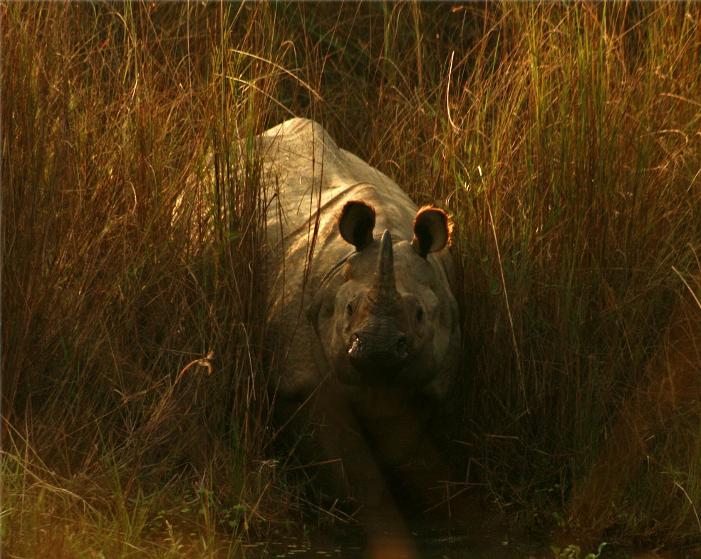 One horn Rhino at Chitawan National Park (UNESCO World Heritage site) , Chitawan, Nepal. I saw this wild beast during our jungle walk at Machan. Winner of 2009 International Rhino Foundation Photo Contest ( Trackback